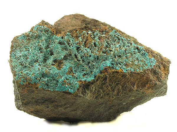 Langite Locality: Grandfontaine-les-Minières Mine, Grandfontaine-les-Minières, Framont - Grandfontaine area, Schirmeck, Bruche valley (Breuch valley), Bas-Rhin, Alsace, France (Locality at ) How many of THESE have you seen around? Langite is a hydrated basic sulfate of copper, first noted in England in the 19th century, and named after the Viennese physicist V. von Lang. Specimens just are not around on the market. This one was purchased long ago from a dealer in Berkeley, California, and ended up in the Hauck Collection, along with lots of other rare minerals. 8.4 x 6.0 x 2.7cm